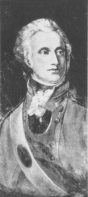 The Lord Charles Henry Somerset (December 2, 1767 – February 18, 1831) was a British governor of the Cape Colony, South Africa, from 1814 to 1826.